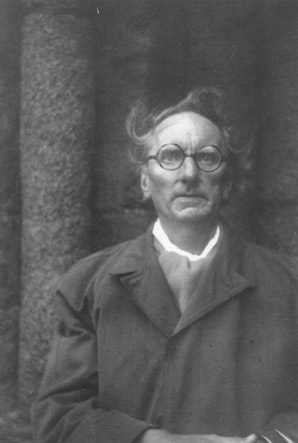 Danish composer Rued Langgaard (1893-1952).